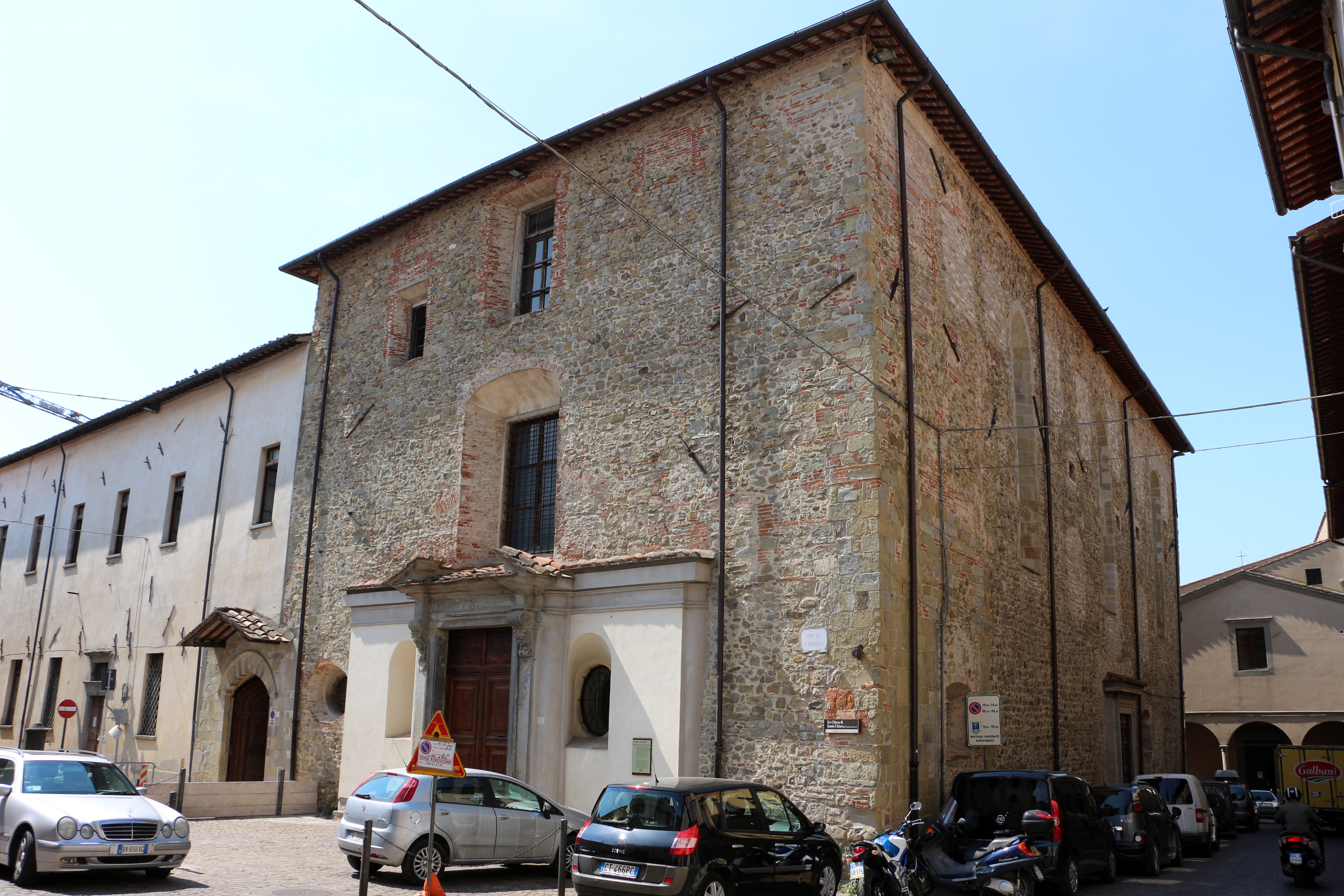 Sansepolcro